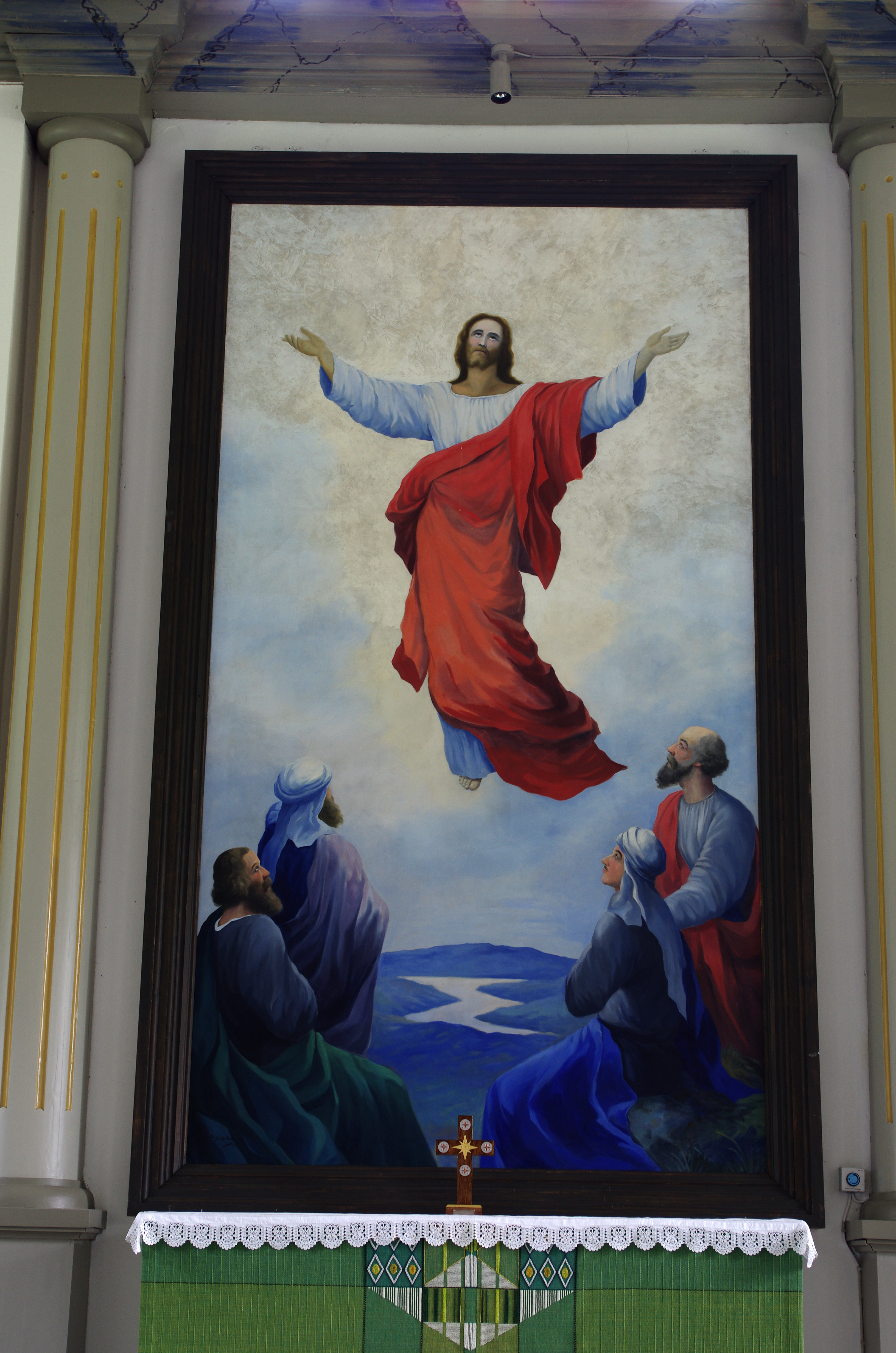 Fröjered church in Västergötland, Sweden.